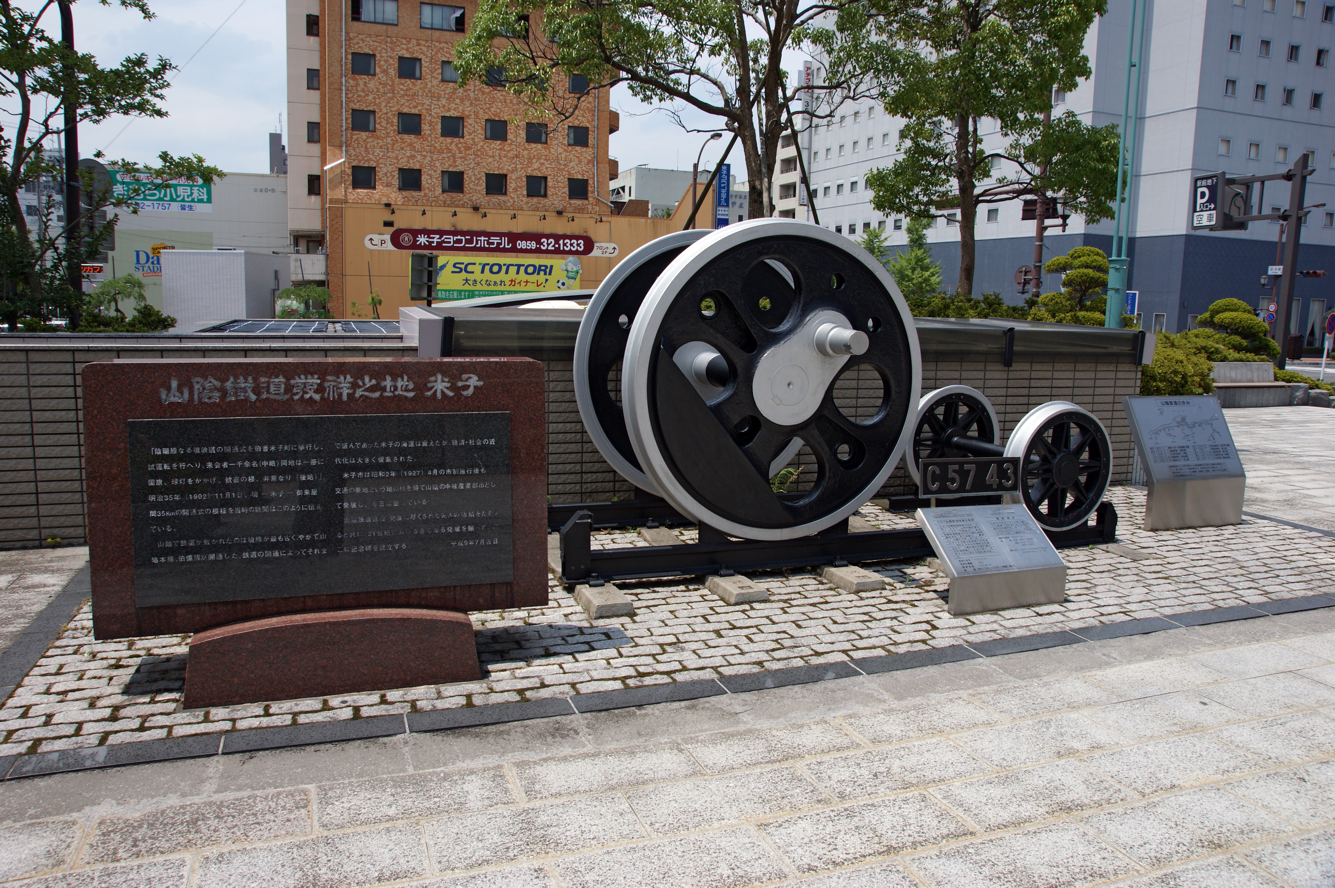 Yonago Station in Yonago, Tottori prefecture, Japan